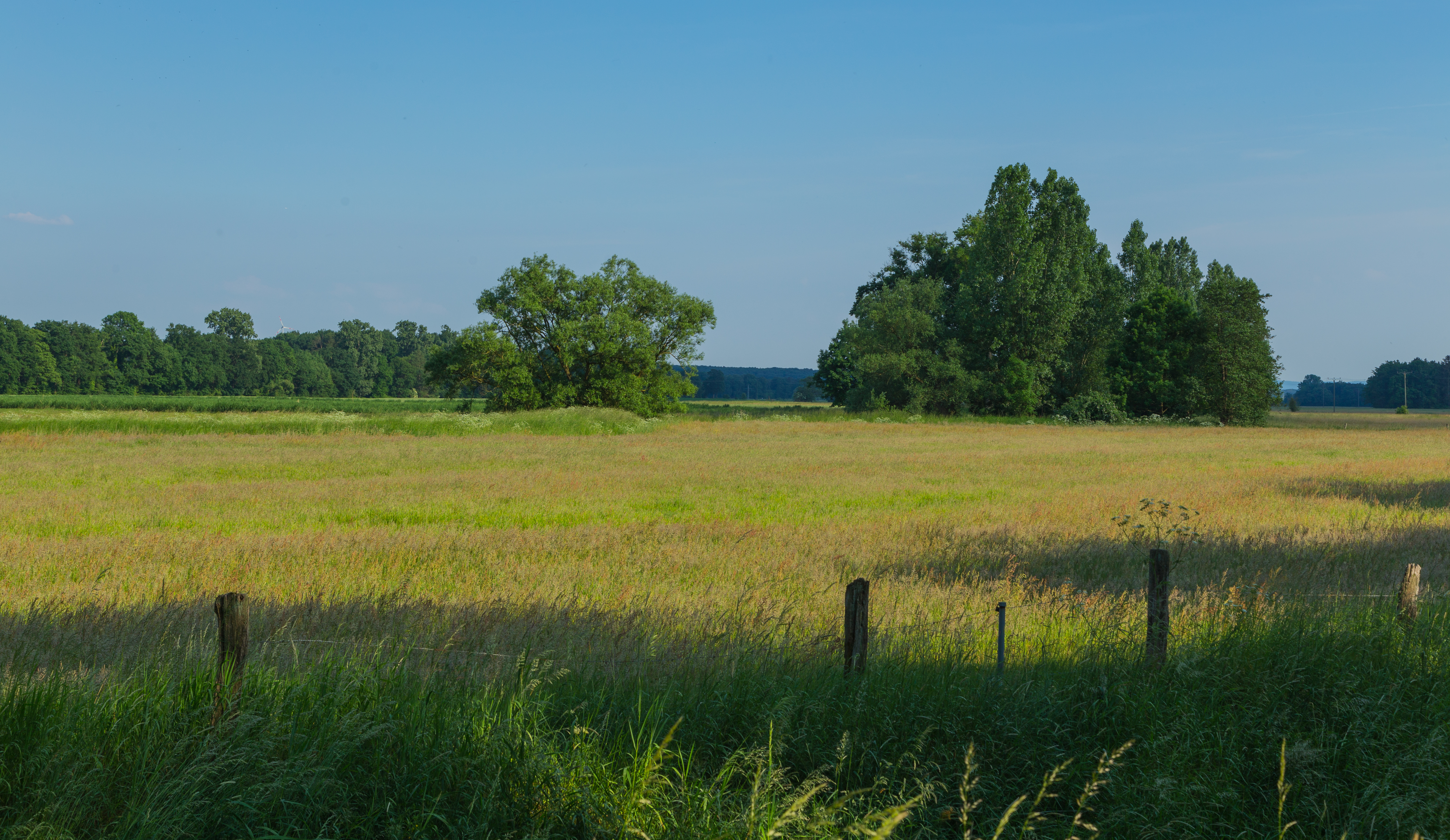 The nature reserve River Hase Flood Plain (Naturschutzgebiet „Haseniederung“) near Halen, district of Lotte, Kreis Steinfurt, North Rhine-Westphalia, Germany.